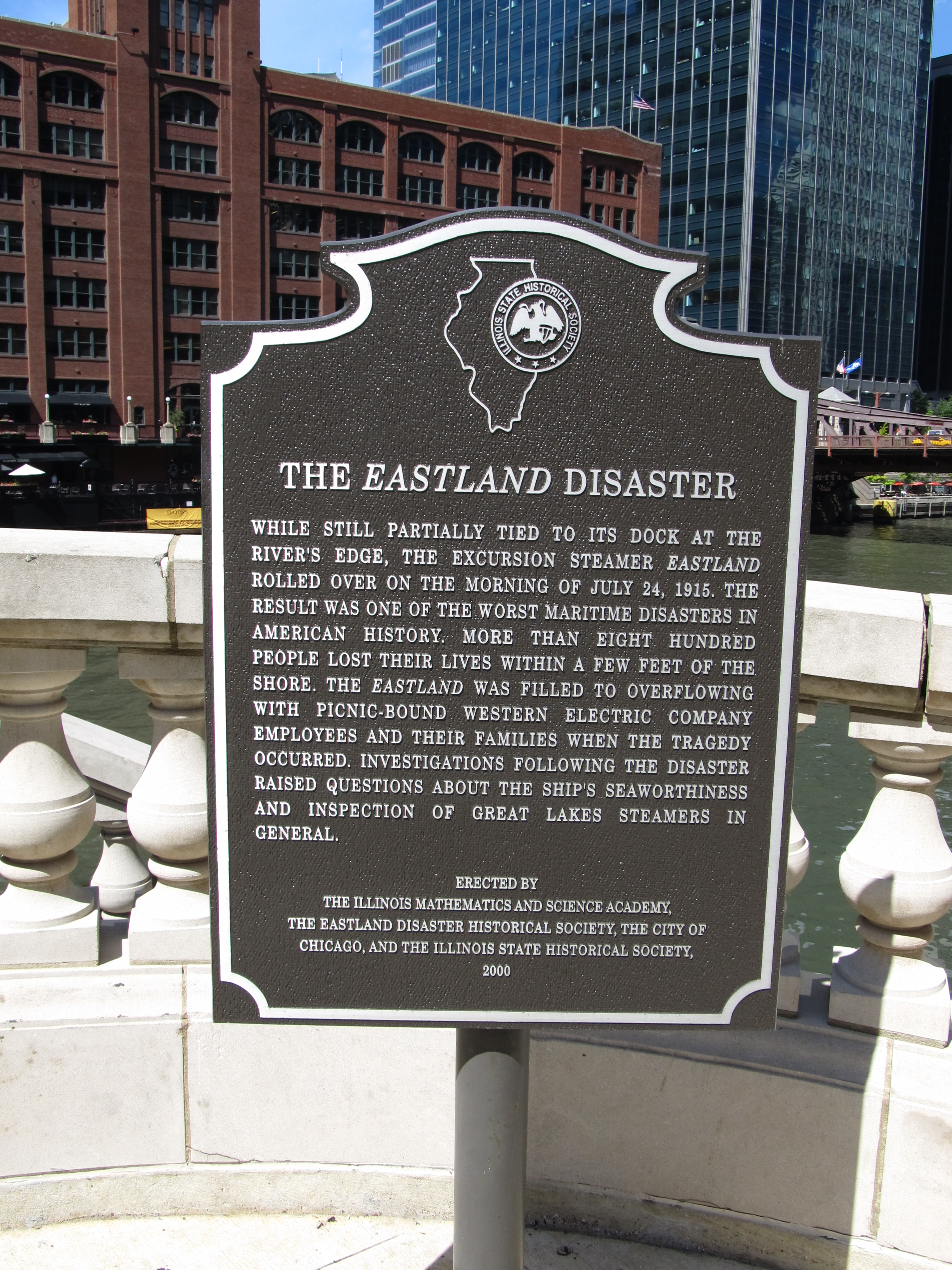 The SS Eastland was a passenger ship based in Chicago and used for tours. On July 24, 1915 the ship rolled over while tied to a dock in the Chicago River. A total of 844 passengers and crew were killed in what was to become the largest loss of life disaster from a single shipwreck on the Great Lakes. Following the disaster, the Eastland was salvaged and sold to the United States Navy. After restorations and modifications the Eastland was designated as a gunboat and renamed the USS Wilmette. She was used primarily as a training vessel on the Great Lakes and was scrapped following World War II.